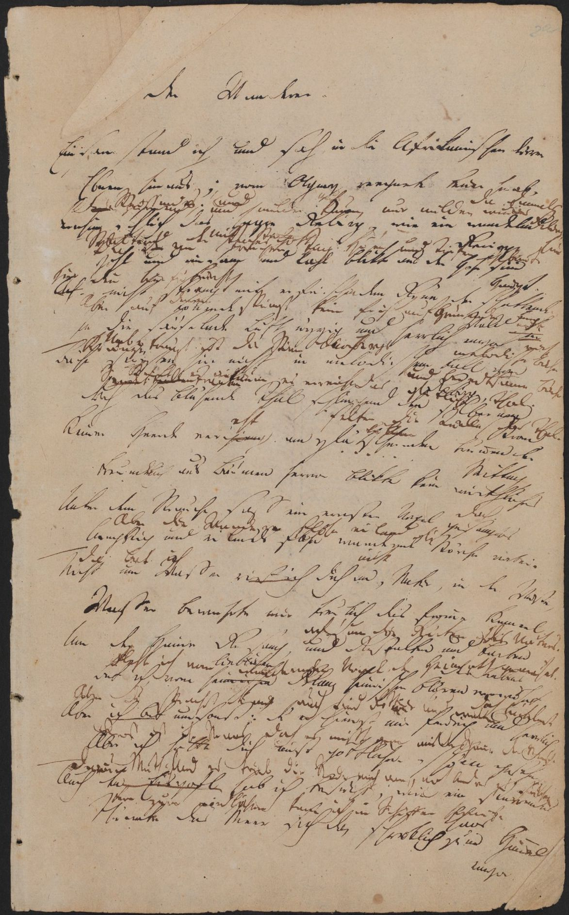 Manuscript by Friedrich Hölderlin "Der Wanderer", page 1